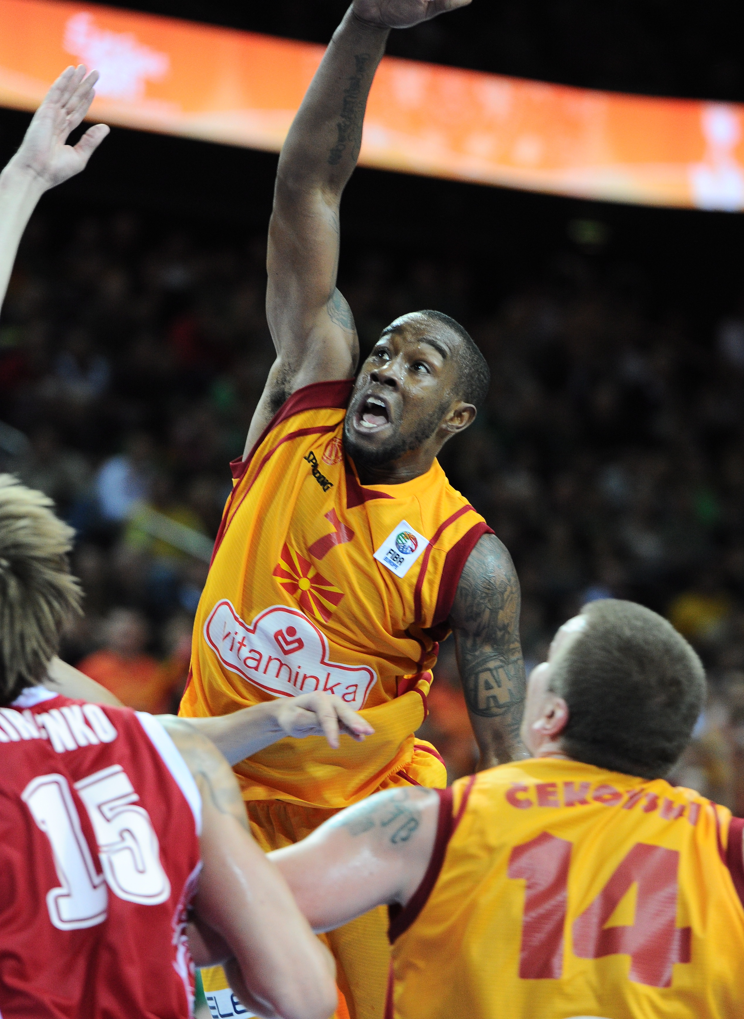 Bo McCalebb of Macedonia at Eurobasket 2011.